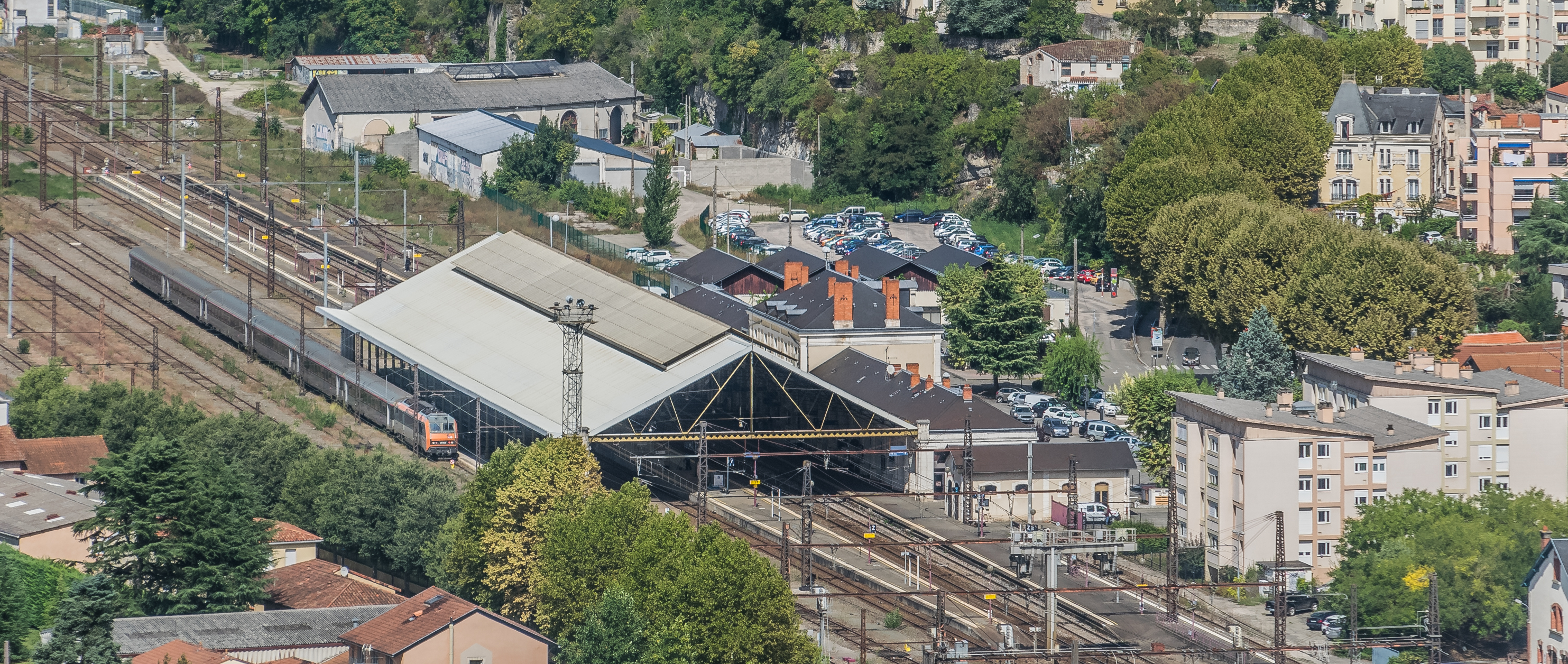 Railway station in Cahors, Lot, France